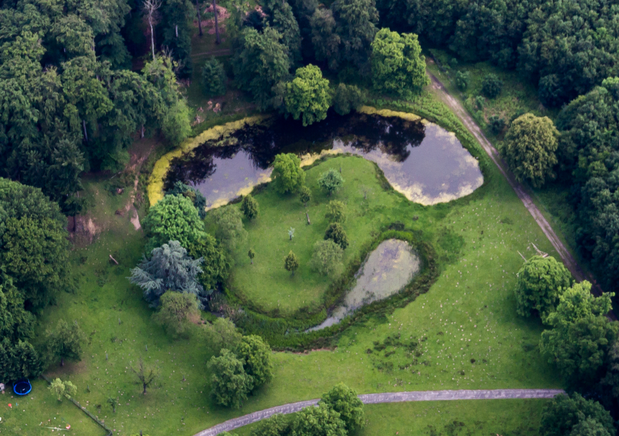 Former Gut Hinderkinck (Hinderking), Dülmen, North Rhine-Westphalia, Germany This image shows a heritage building in Germany, located in the North Rhine-Westphalian city Dülmen (no. 61).